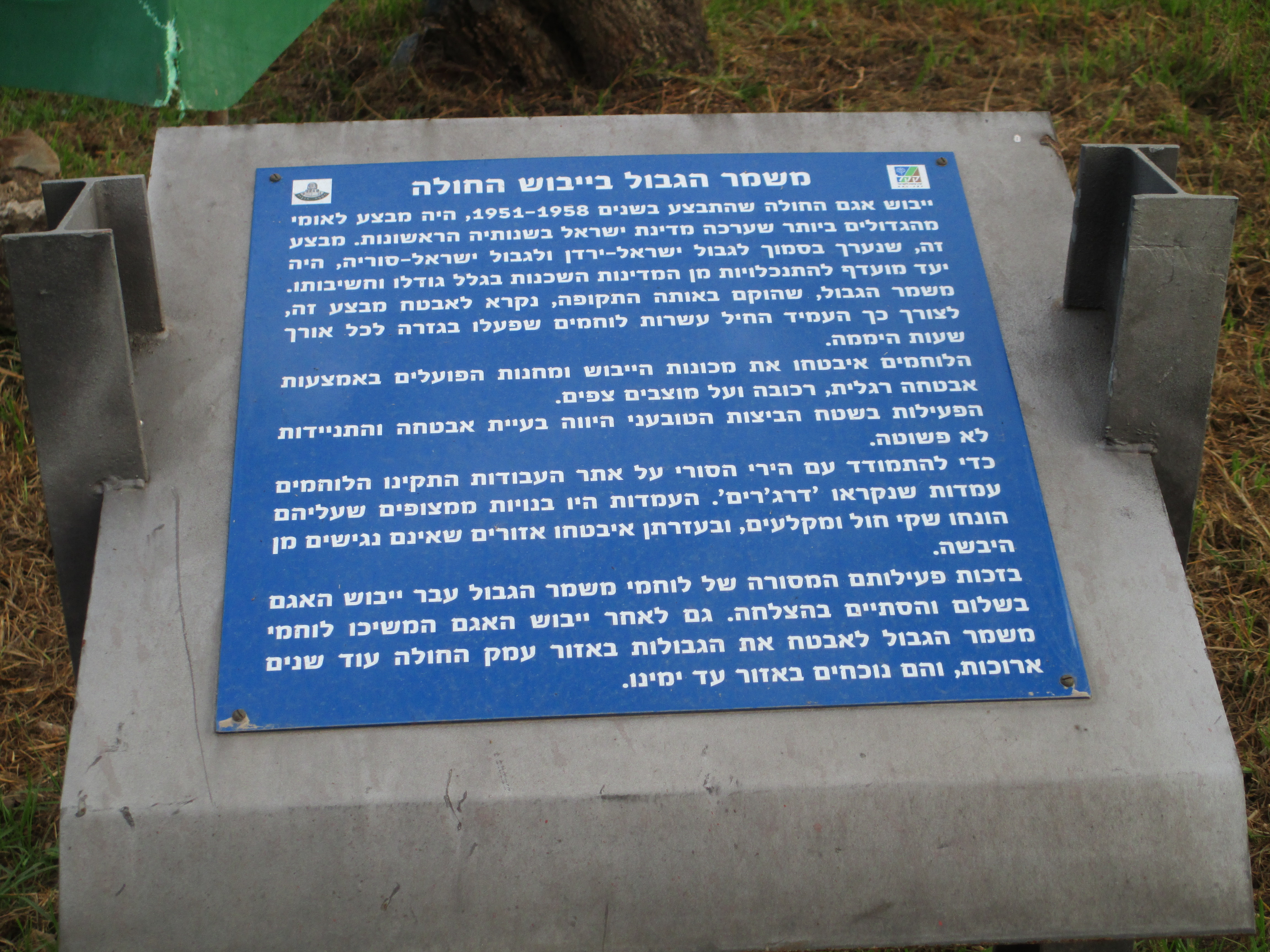 Agamon Hahula in Hula Valley